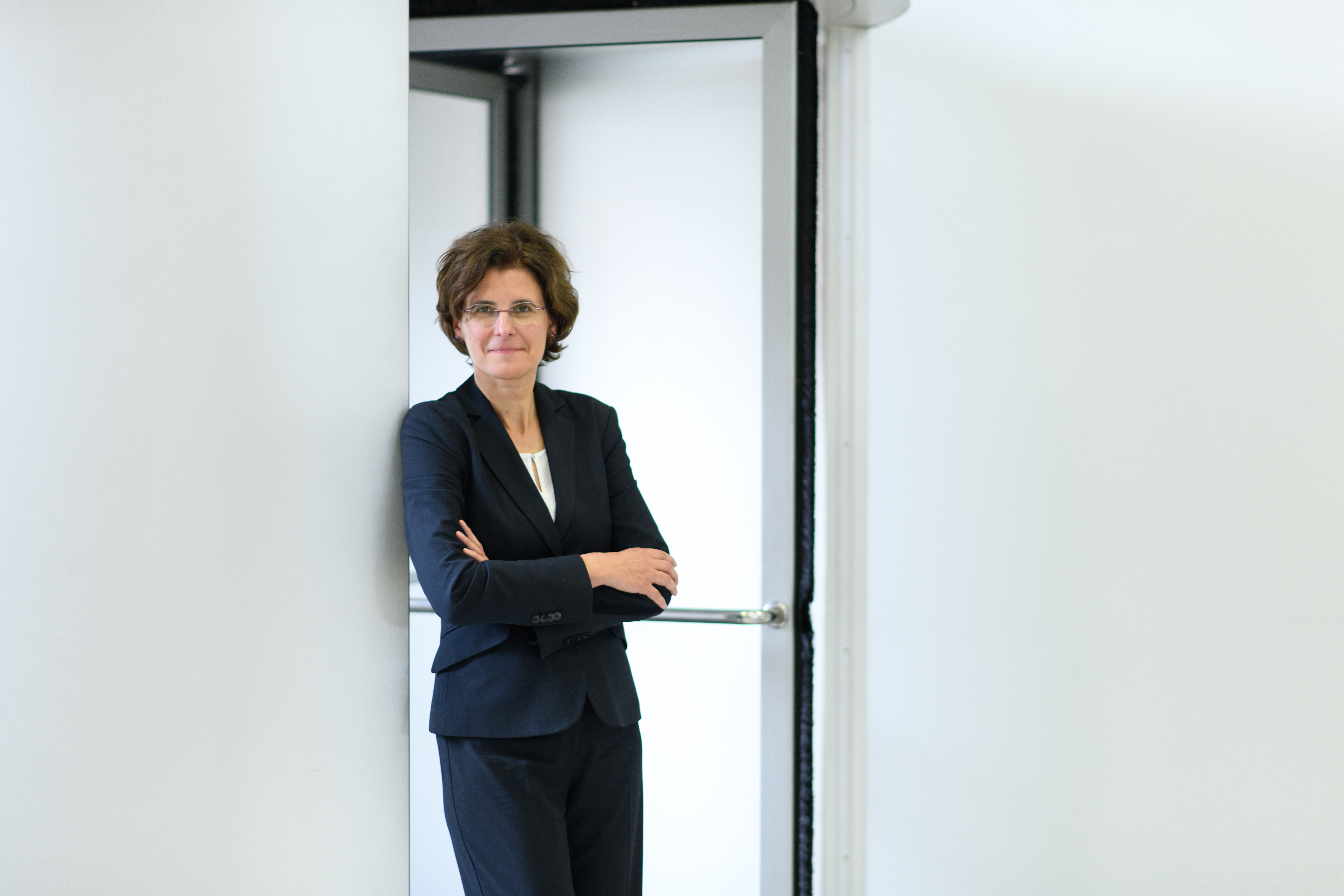 Irene Bertschek